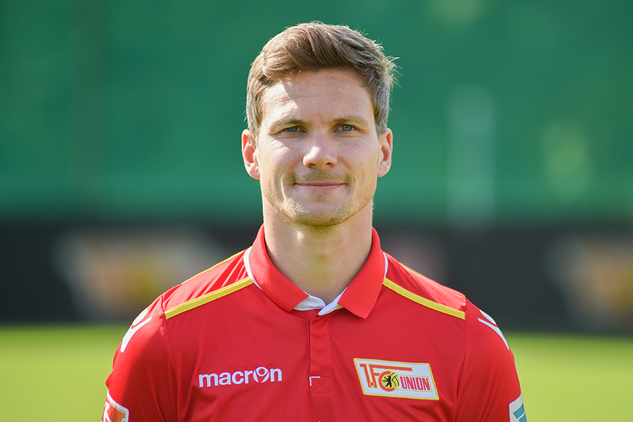 Teamfoto 2016/17